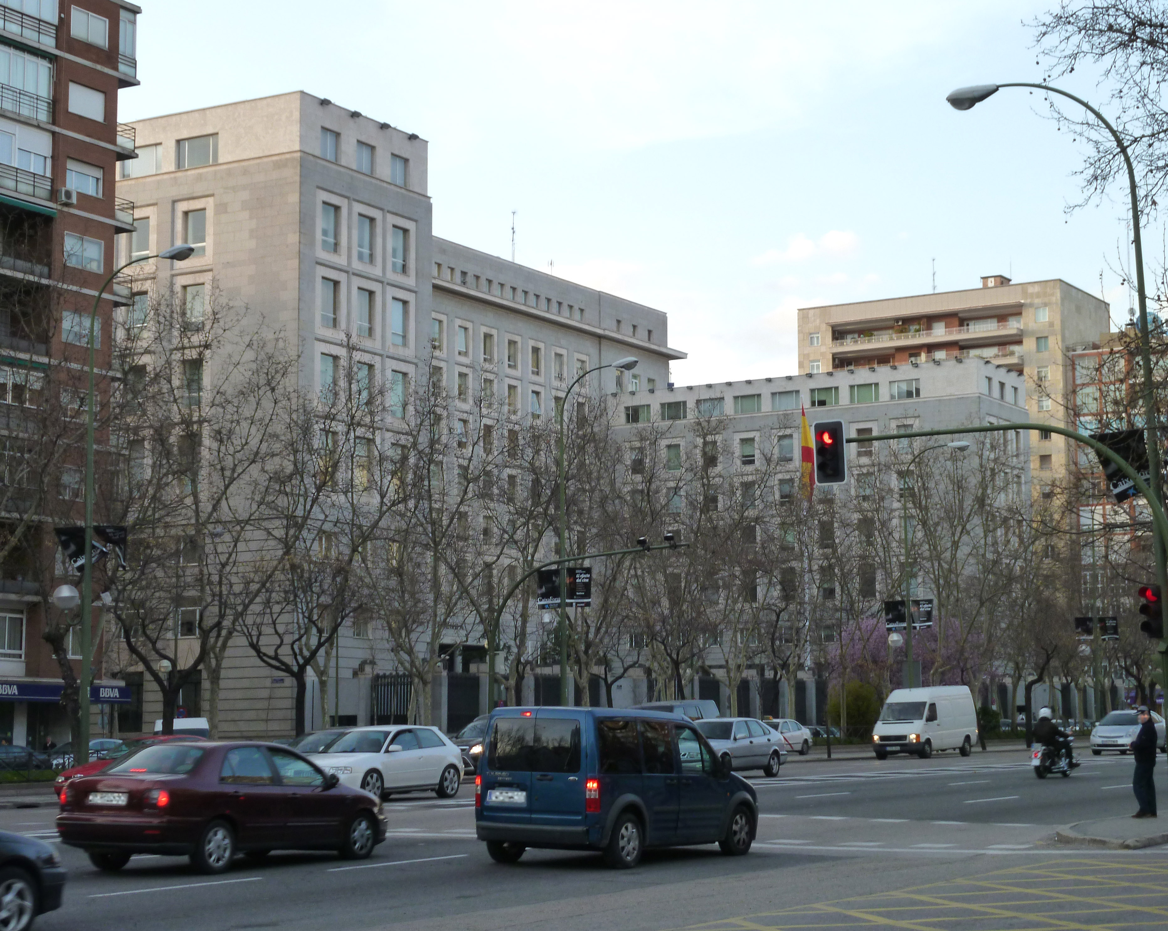 Headquarters of the Spanish Ministry of Defence, at 109 Paseo de la Castellana (an avenue) in Tetuán district in Madrid.